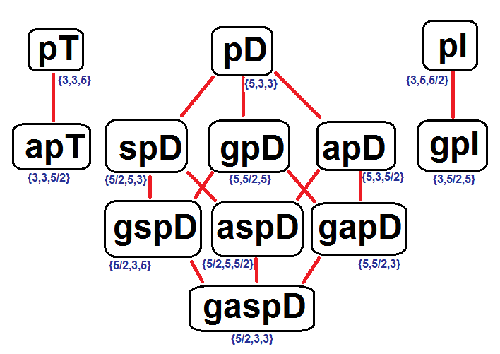 Regular star 4-polytopes Conway name modifiers